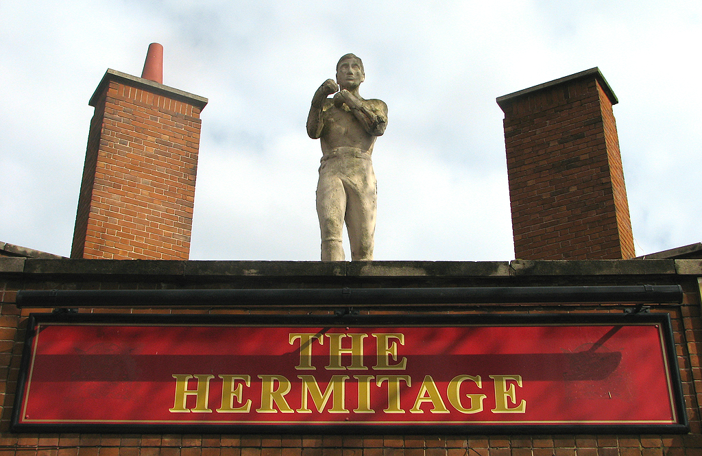 Sneinton: statue of Bendigo This concrete statue of the Nottingham bare-knuckle fighter William Abednego Thompson (1811-60) stands over the door of the public house at the corner of Sneinton Hollows and Thurgarton Street which was once named after him. Bendigo had many admirers, including Sir Arthur Conan Doyle, who wrote: "You didn't know of Bendigo? / Well that knocks me out! / Who's your board school teacher? / What's he been about? / Chock a block with fairy tales; / Full of useless cram, / And never heard of Bendigo / The Pride Of Nottingham."